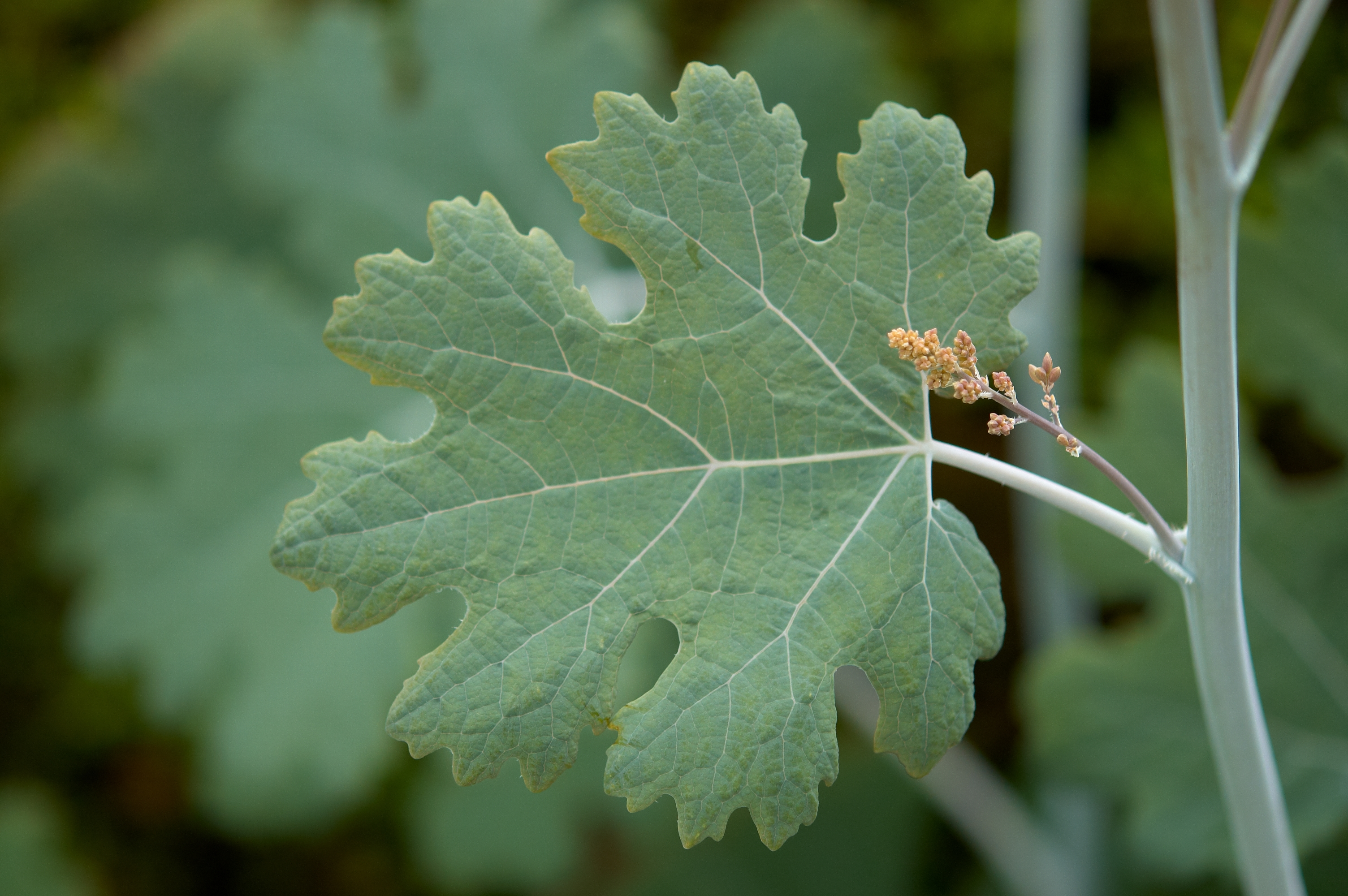 Macleaya cordata